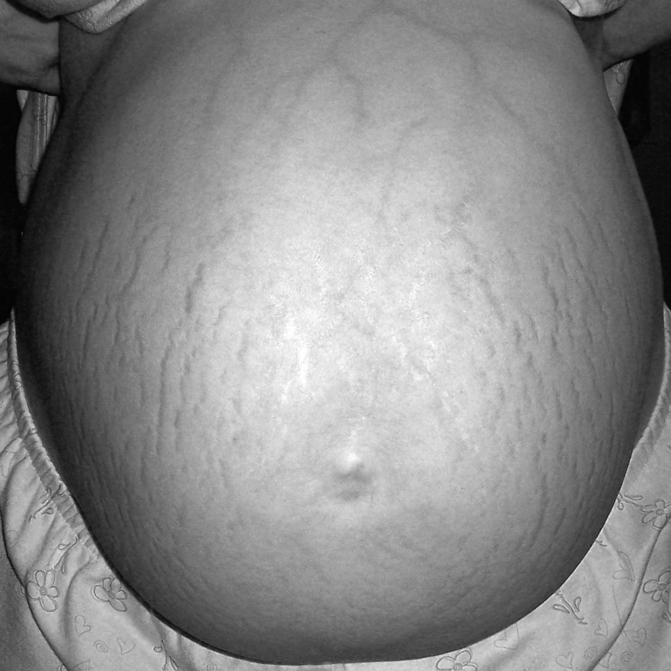 Kirsten's belly. The baby is due in less than two weeks.